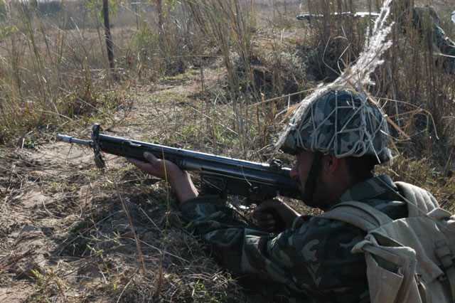 A soldier of the Pakistan Army performing an exercise